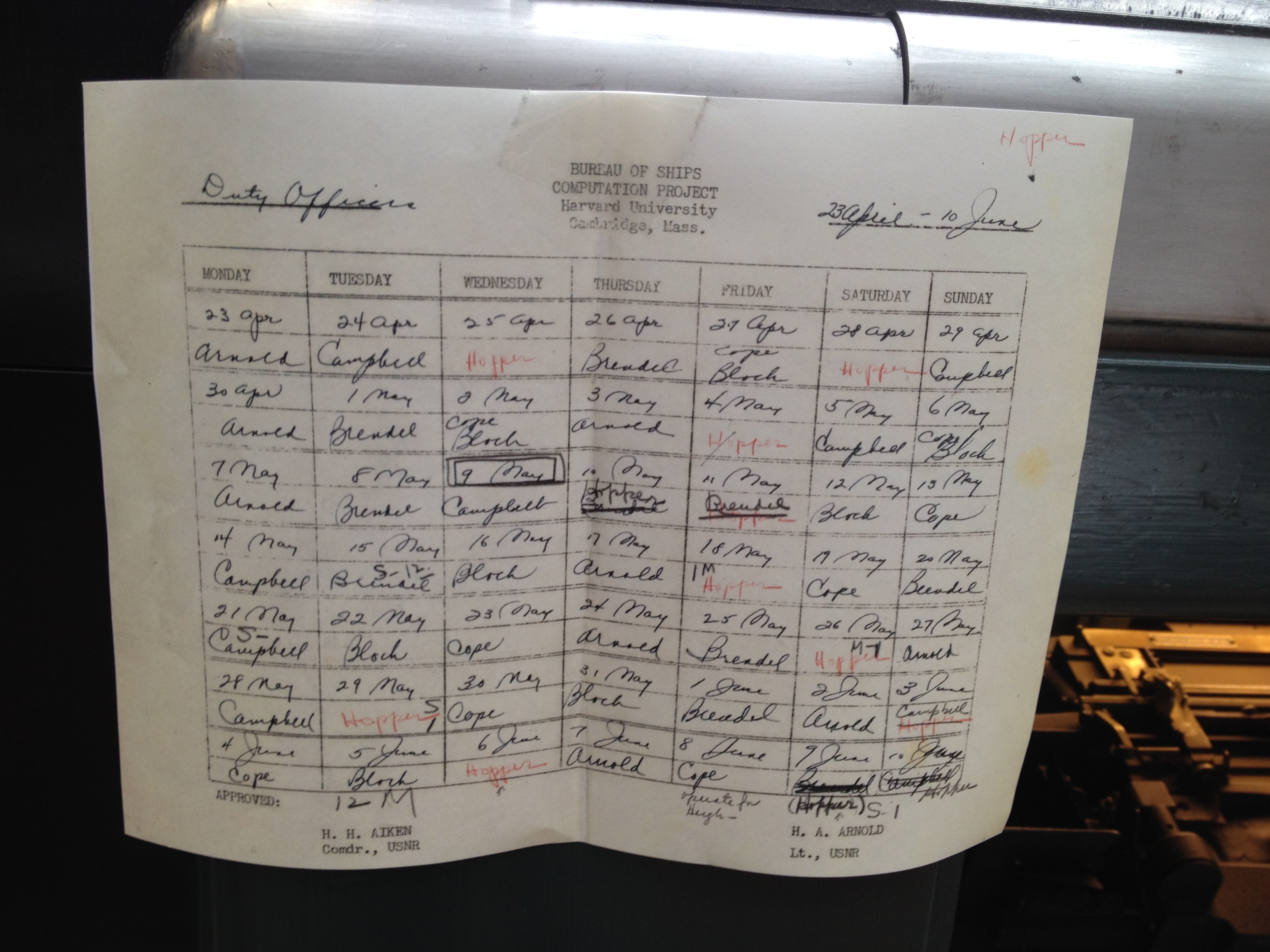 Duty officer signup sheet for the U.S. Navy Bureau of Ships Computation Project at Harvard University, which built and operated the Harvard Mark I, one of the earliest digital computers. The Mark I was in operation from 1944 to 1959. During that period, the days of the week and dates on the form, e.g. Monday, 23 April, match up for the following years: 1945, 1951 and 1957. Grace Hopper, noted computer pioneer, worked on the project from 1944 to 1949.